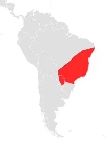 Distribution of Chiroderma doriae